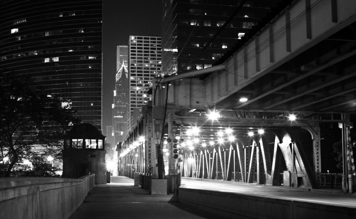 Original description: Photograph by Serhii Chrucky, Chicago, Illinois, 2005.